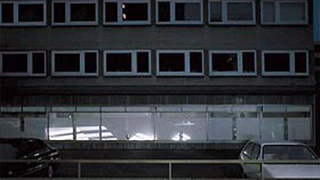 Streetview of the artwork "small times" by Charly Steiger, seen at night.